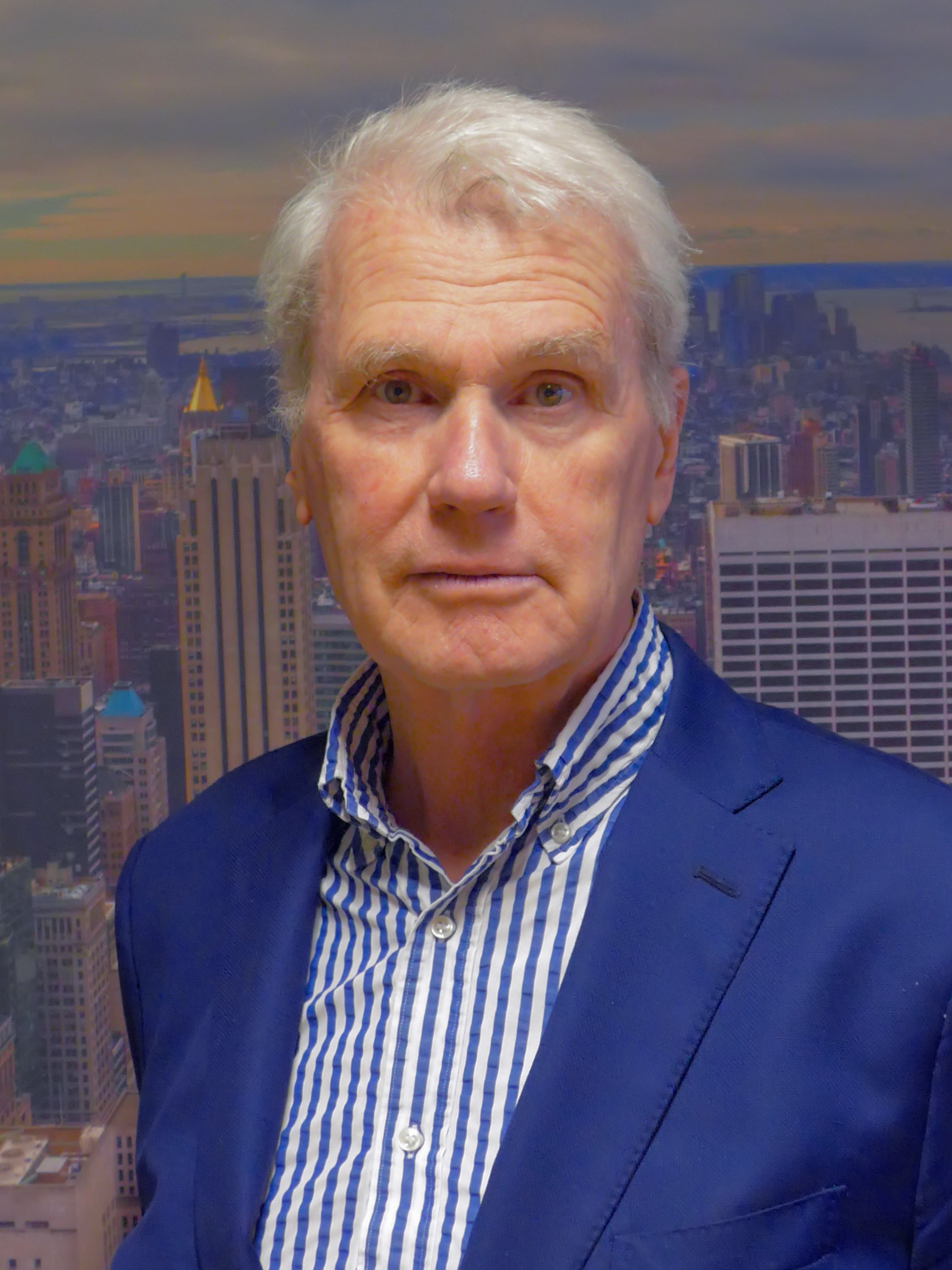 Adriaan van Dis (2016)